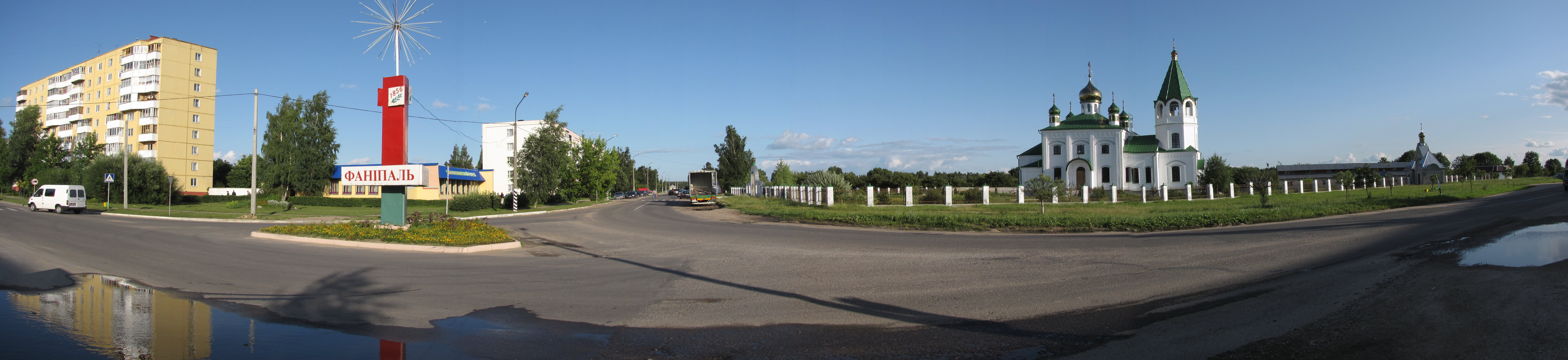 Panorame of Fanipol.